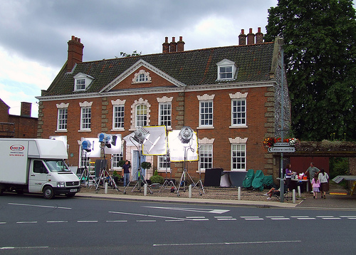 Swaffham Filming takes place outside Peter Kingdoms offices in the fictional Norfolk town of Market Shipborough.